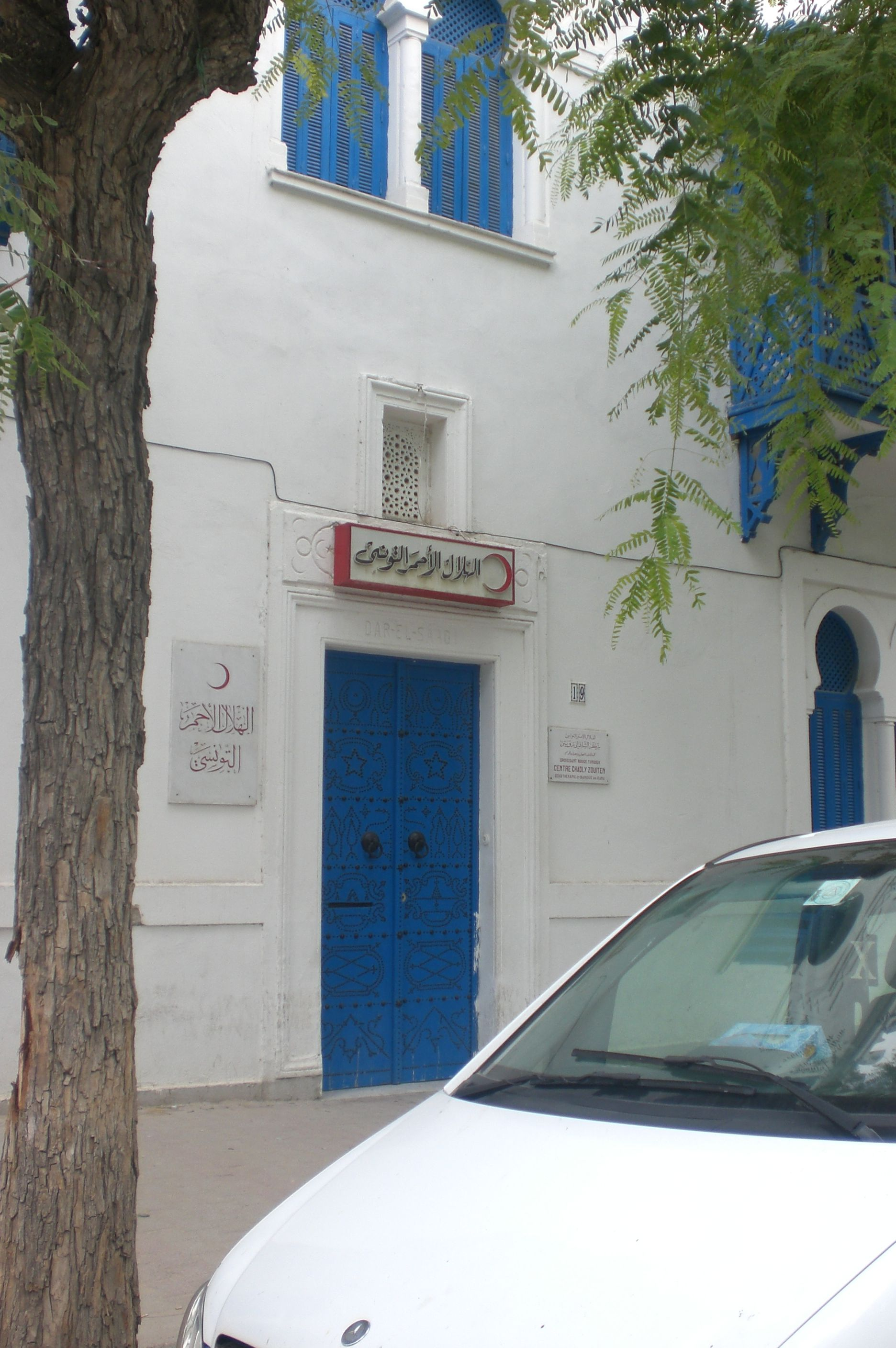 The readquarters of the Tunisian Red Cressent- Rue d'Angleterre - Tunis